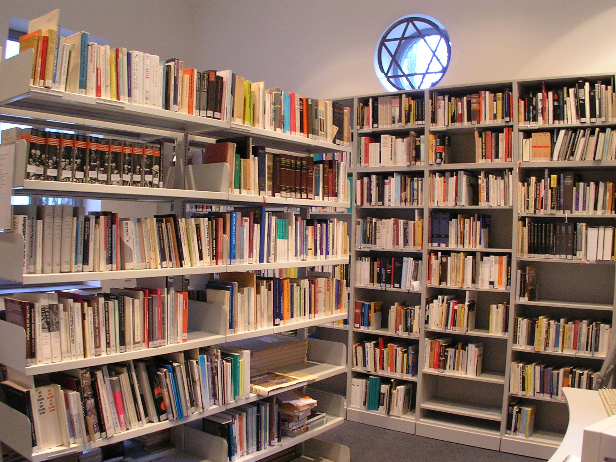 Jewish library in the Jewish Museum Westphalia, Dorsten, Germany